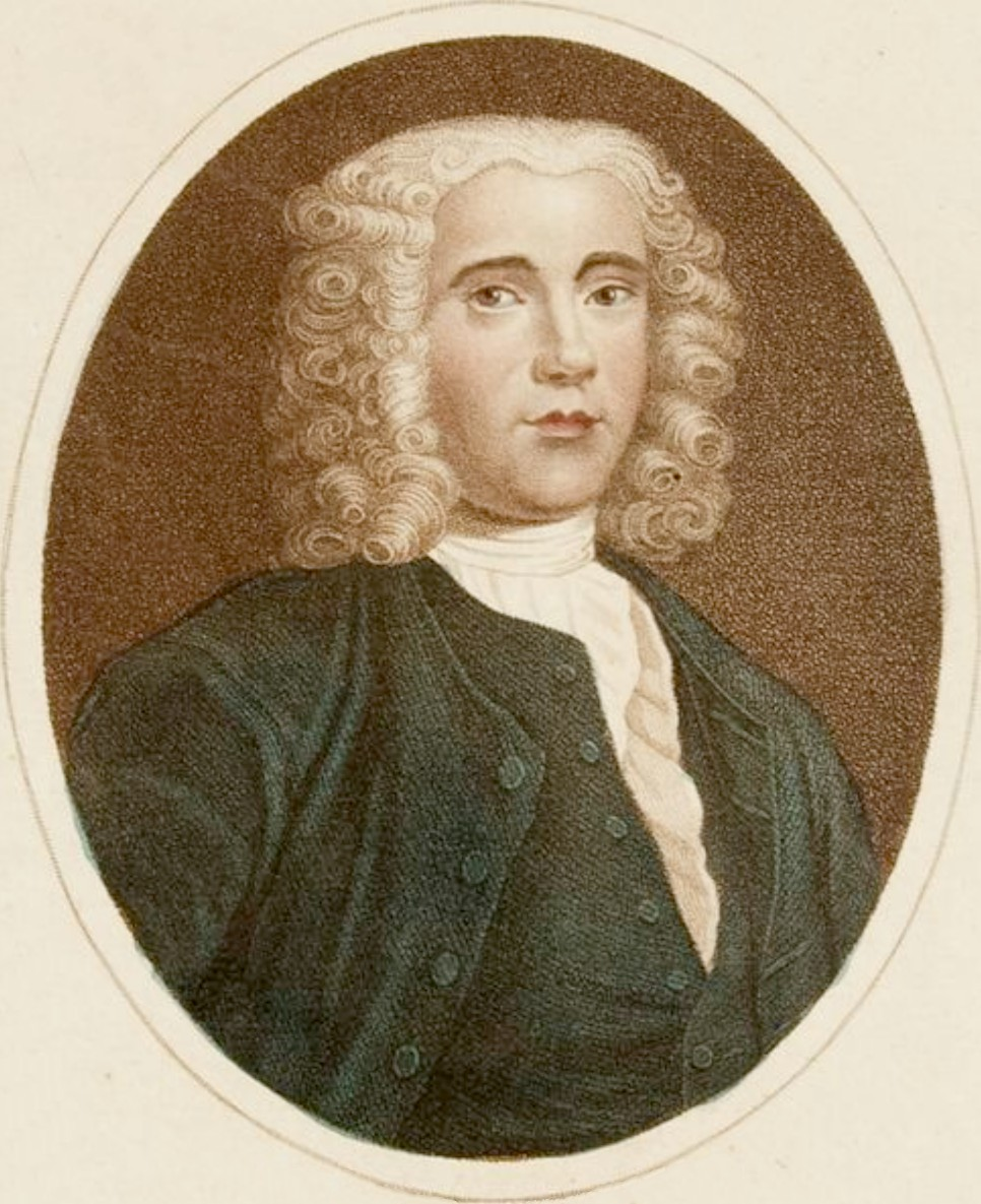 Description: Copper engraving of Benjamin Martin (1704-1782) from an original portrait Artist: R Page Publication: Encyclopaedia Londinensis, 1815